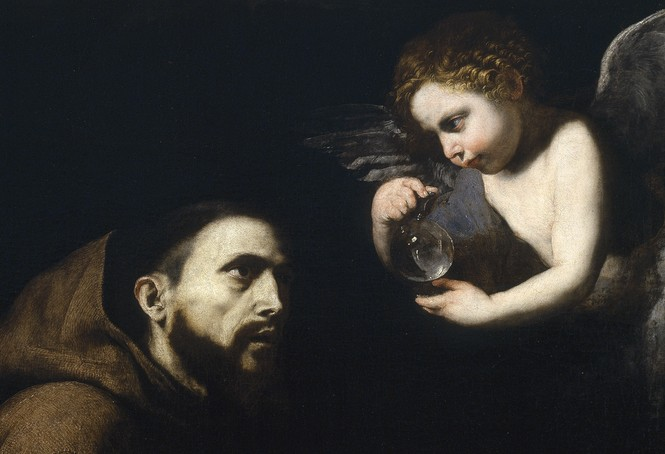 Detail of the painting by José Ribera: "Vision of the nontransparent of St. Francis of Assisi". Museo del Prado, Num. catalogue P01107 (hacia1636 - 1638) oil on canvas. Dimensions: 120 cm x 98 cm (school Spanish).